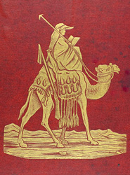 Egyptian Sepulchres and Syrian Shrines by Emily Anne Beaufort died 1887 - went through "a number of editions"